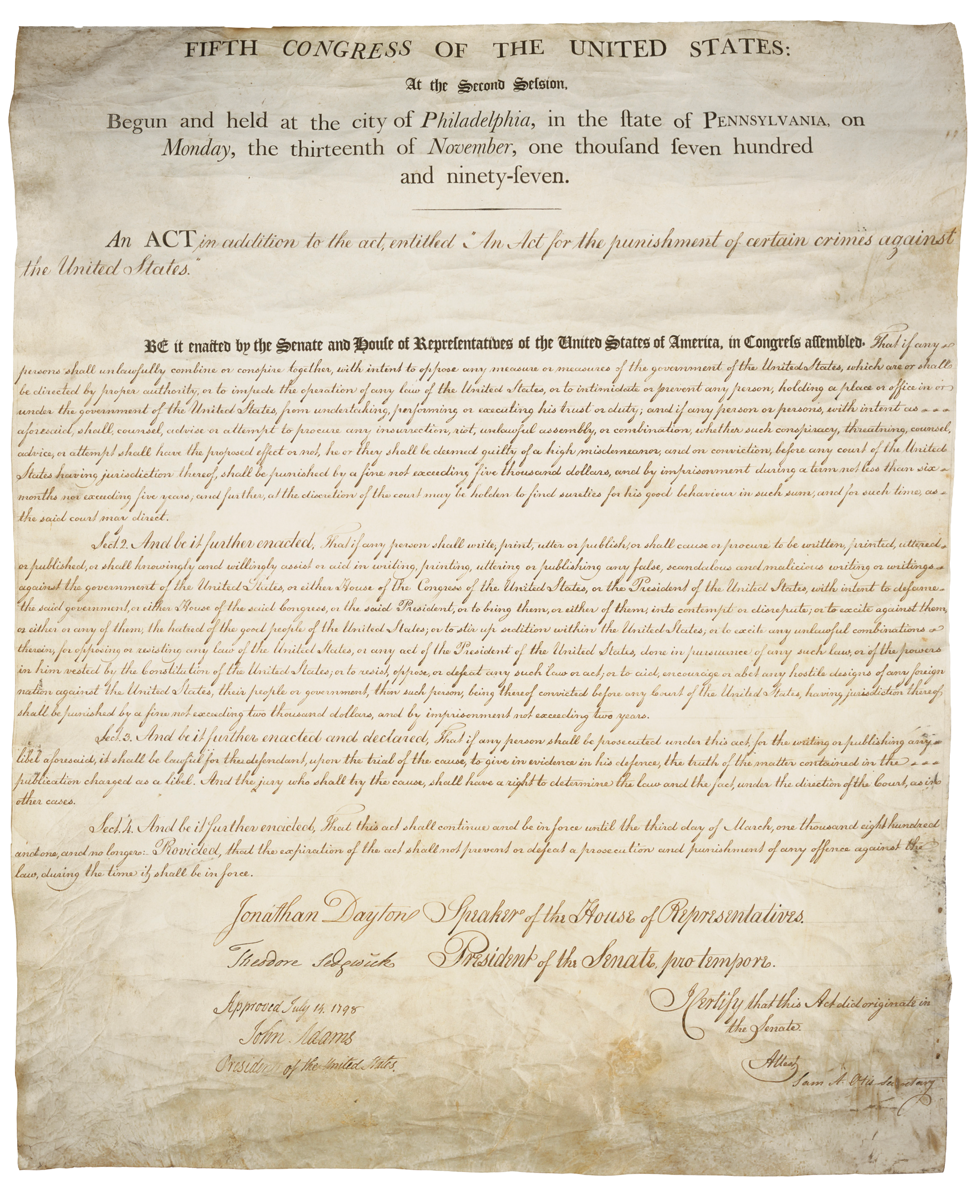 Here is a high-resolution copy of the Sedition act which comes from a government source. I have straightened the page, sharpened it, and darkened the text. See its companion document at File:Alien_and_Sedition_Acts_(1798).png